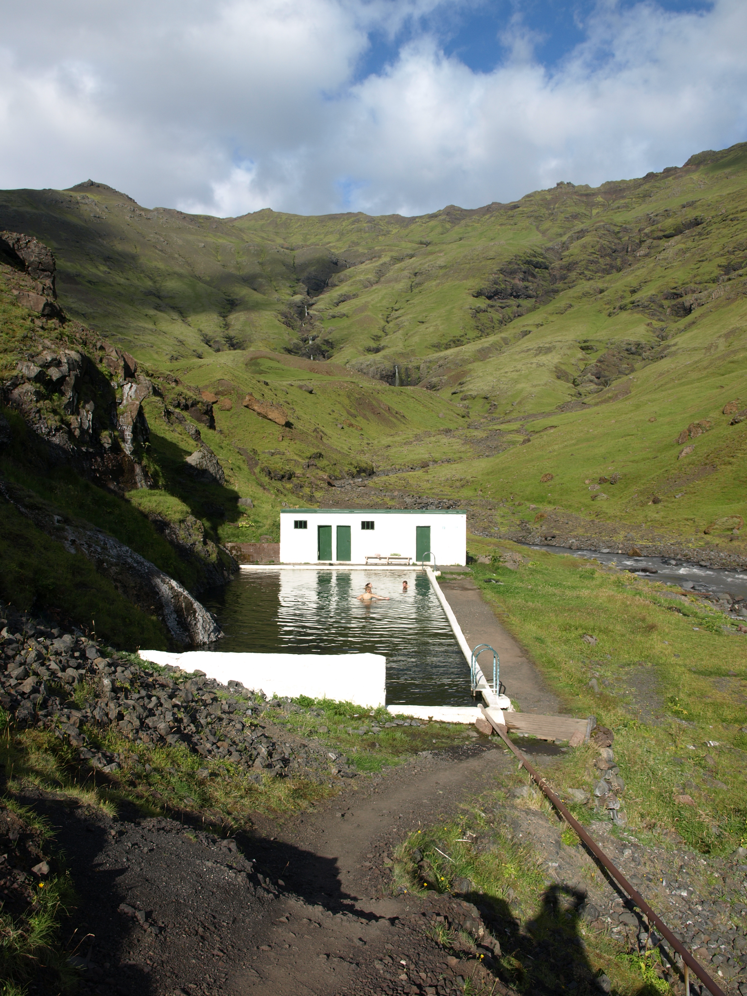 Photograph of Seljavallalaug, the oldest swimming pool in Iceland, in south Iceland, close to Skógar.